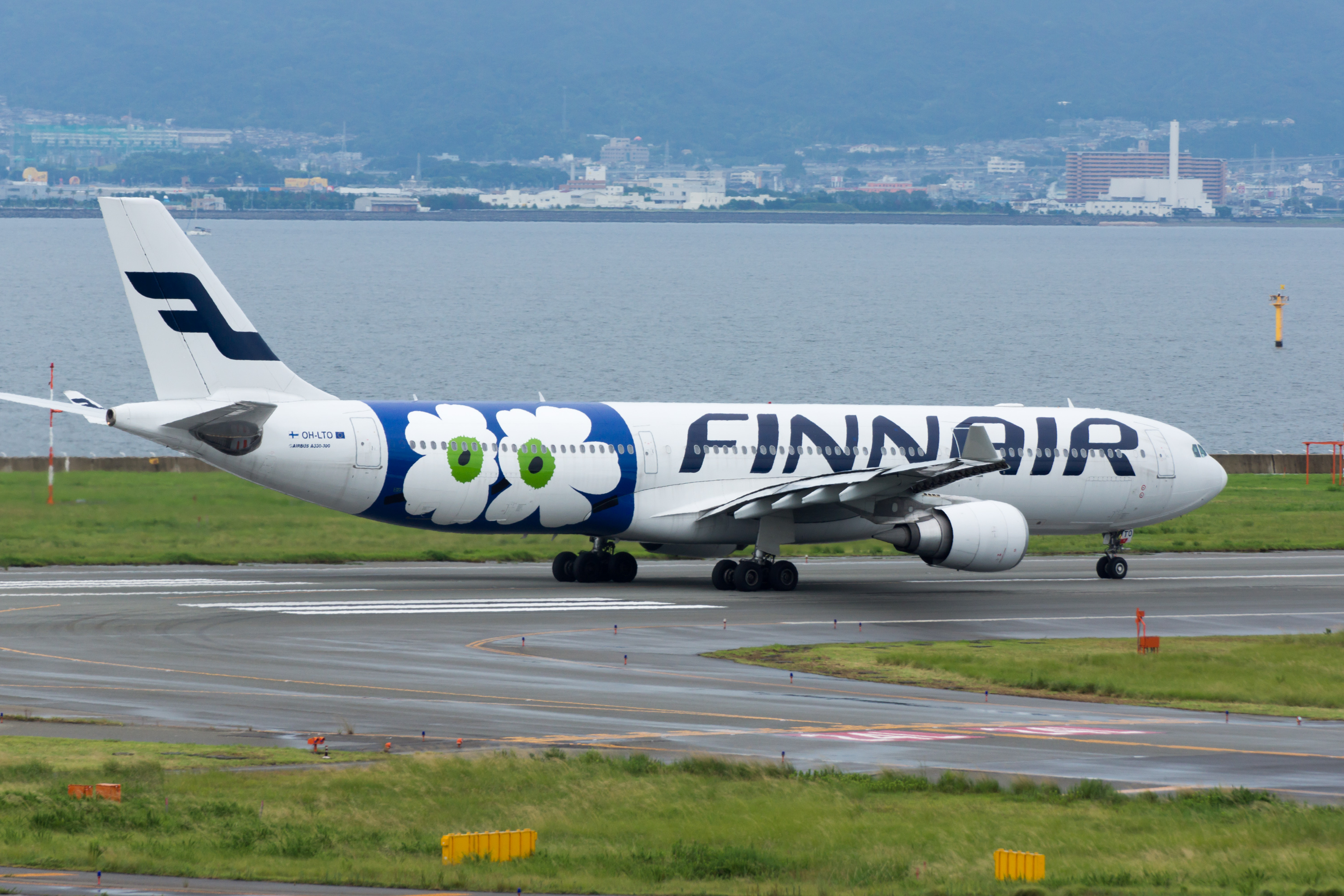 Finnair / Finnair Oyj / フィンエアー Airbus A330-302E OH-LTO Special Marking "Marimekko Anniversary Unikko Livery" AY78, Departed to Helsinki Osaka Kansai Int'l Airport